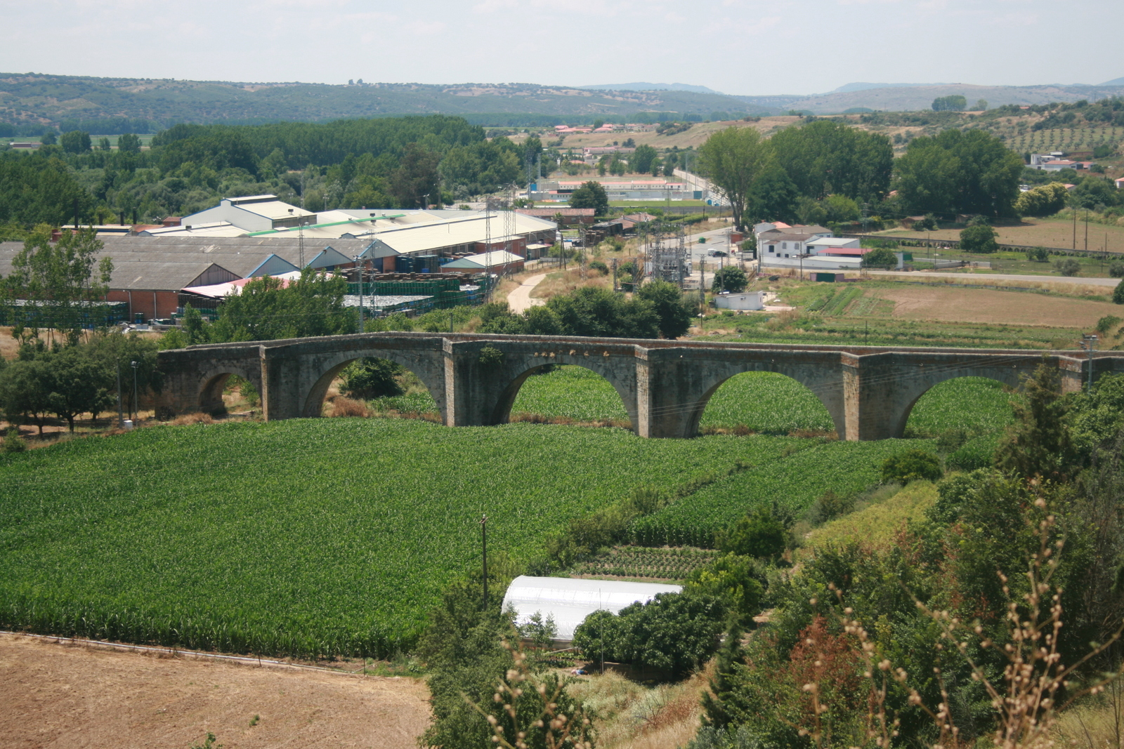 Coria old bridge. The river has changed course, and no longer flows beneath the bridge. Instead there are fields of green crops